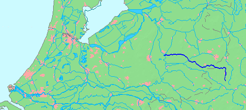 Location of a waterway (river/canal) in the Netherlands